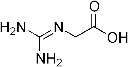 chemical structure of glycocyamine